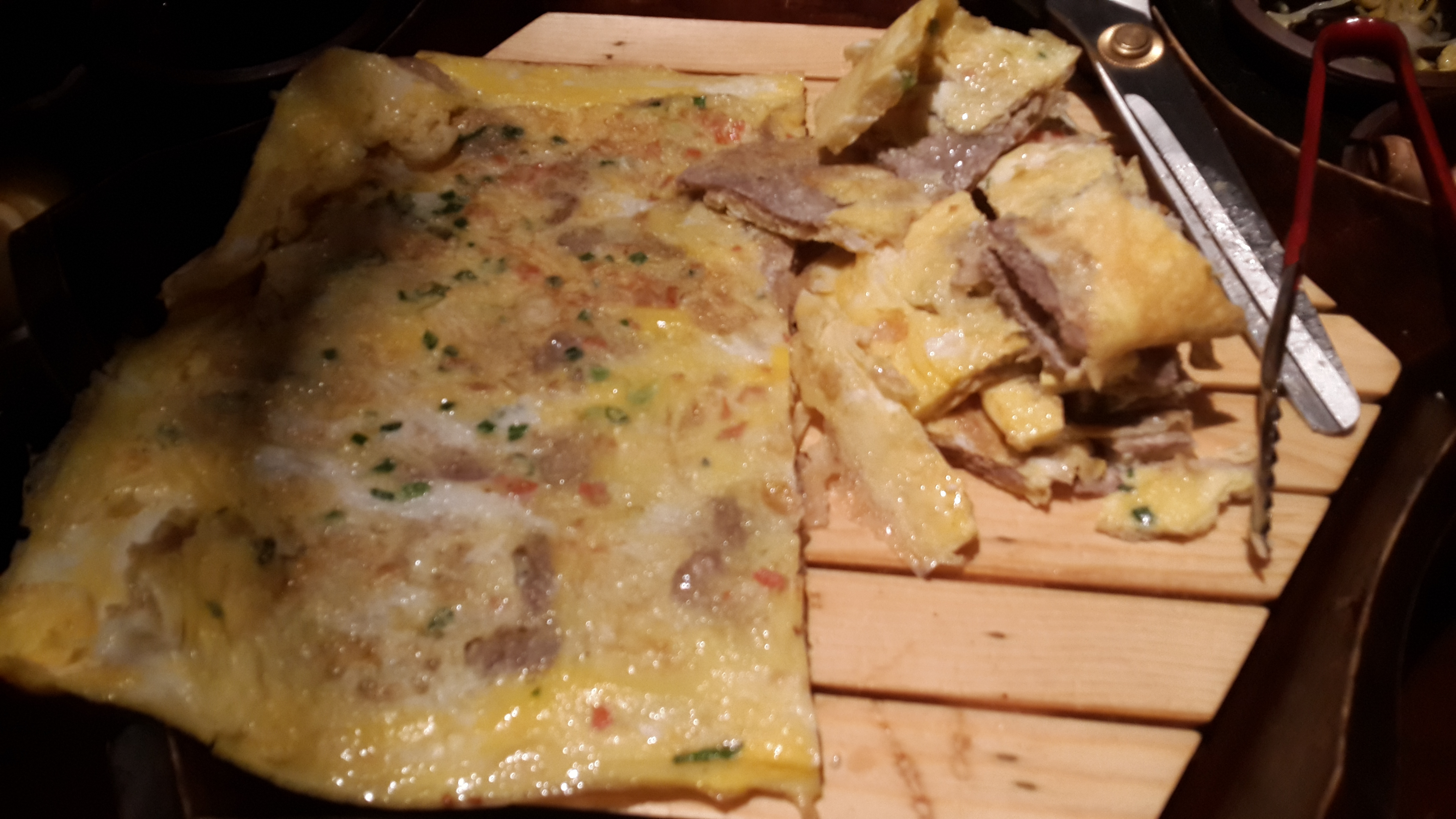 Yukjeon. A variety of Korean jeon (pancake).